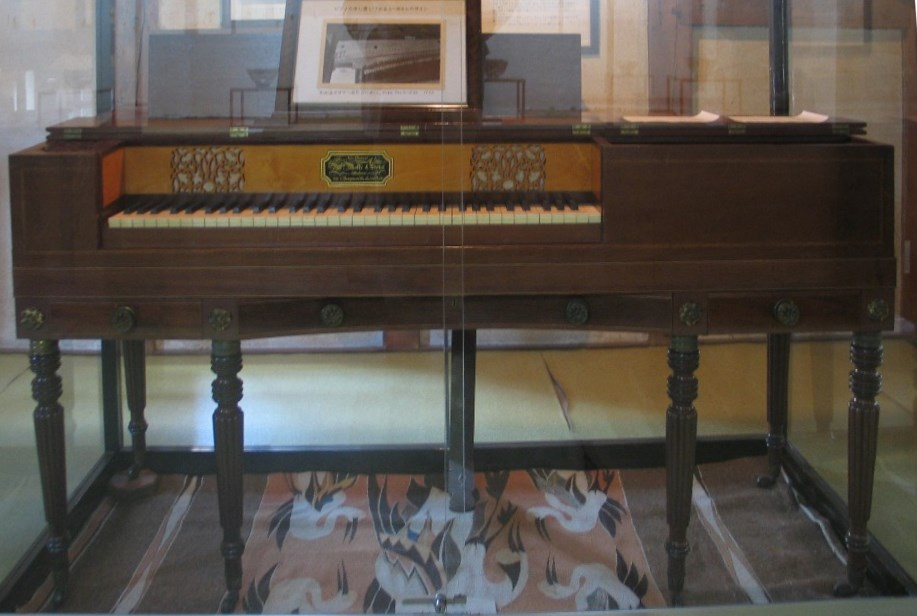 The square piano (William Rolfe & Sons, London), Siebold took with him to Japan. On his return, he gave it to his friend Kumaya of Hagi city